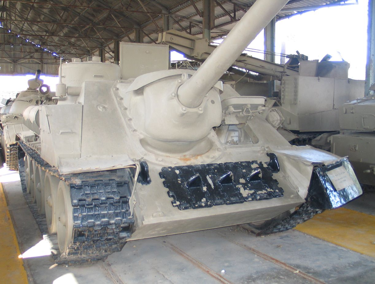 SU-100 in Batey ha-Osef museum, Tel Aviv, Israel. 2005.